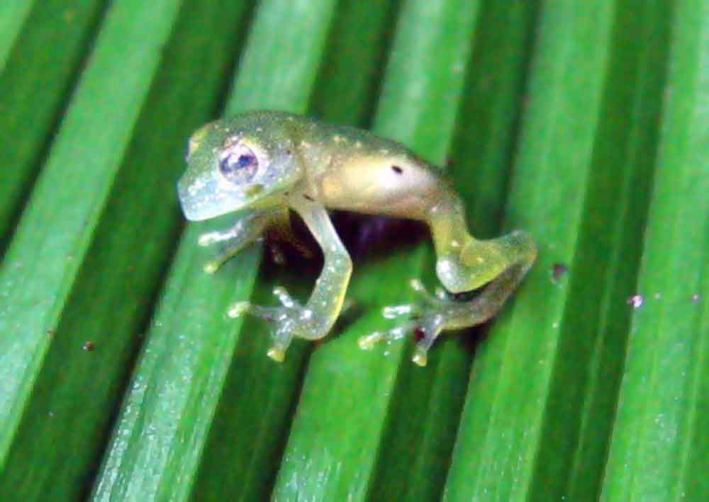 Glass frog (Cochranella albomaculata, I think) from Costa Rica. Original photo by User:Pstevendactylus uploaded to Wikimedia Commons. Edit by User:Froggydarb to remove a lot of the grain. Commons:Category:Cochranella albomaculata